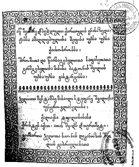 One of the first printed books in Georgia. Printed in the mkhedruli script in Tbilisi under the auspices of Vakhtang VI, 1711